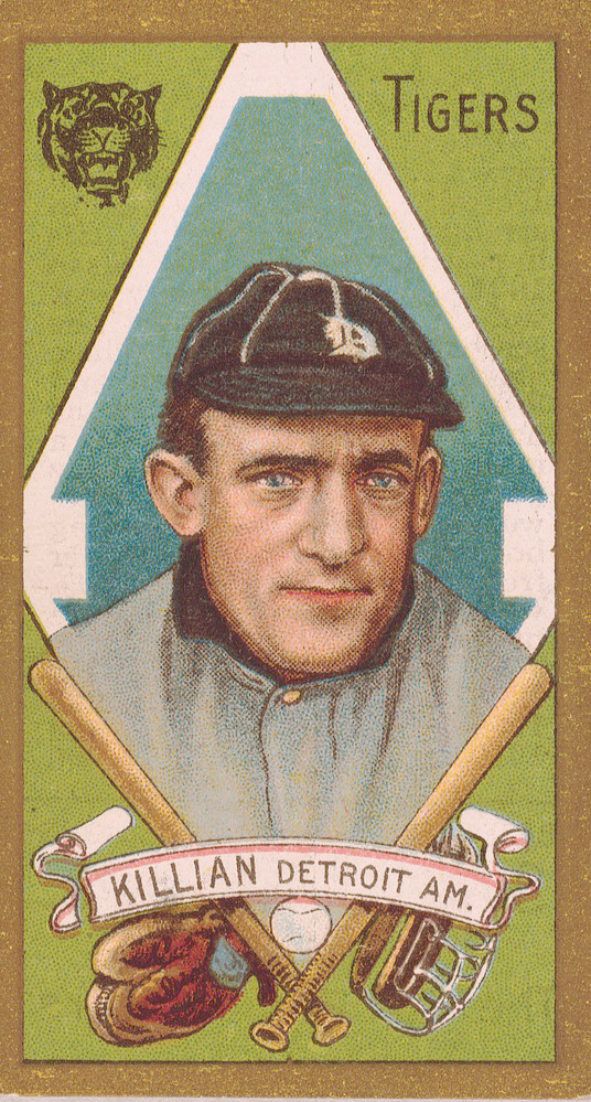 1911 cigarette card of Detroit player Ed Killian.